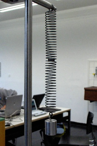 Spring pendulum